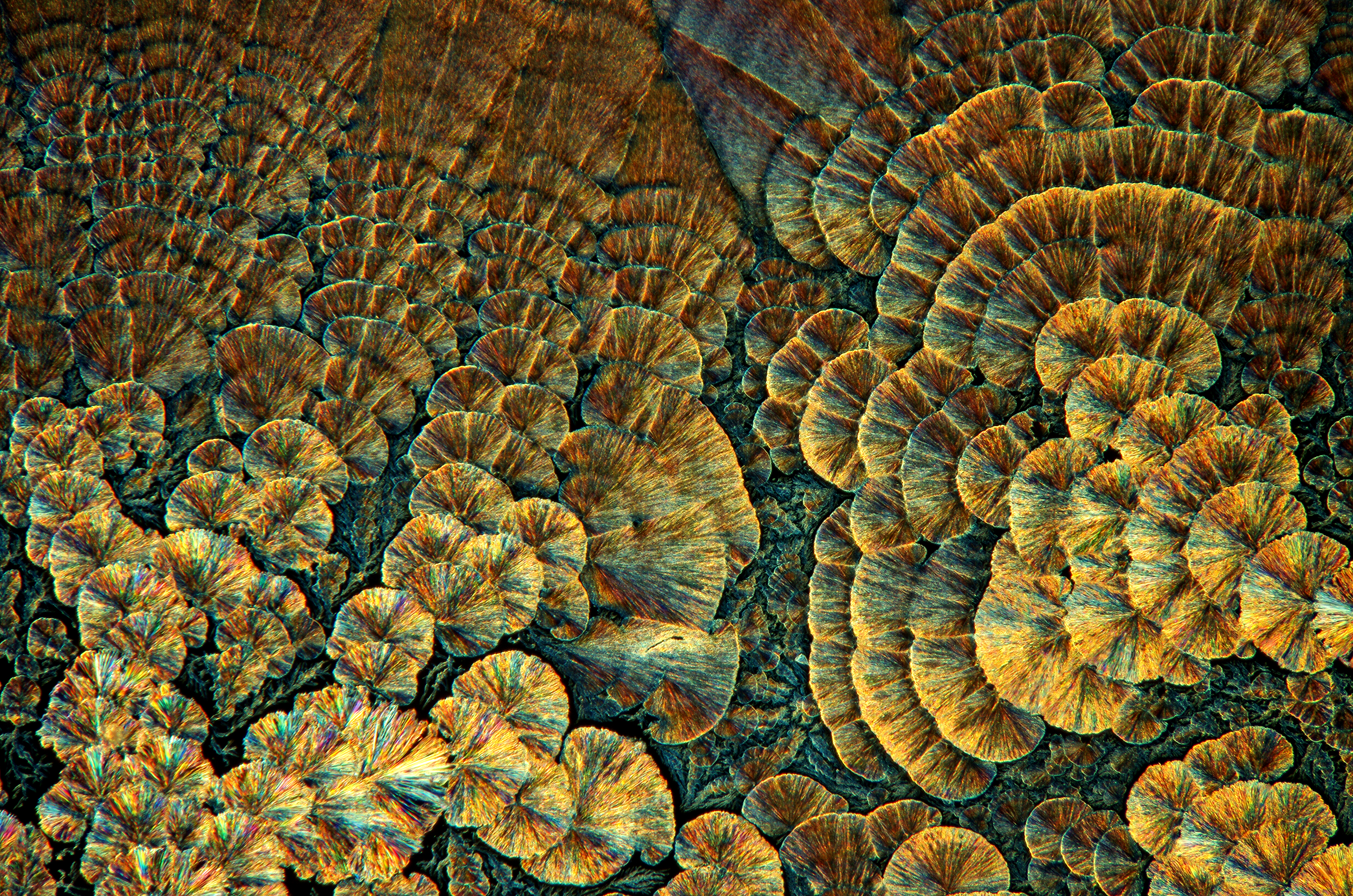 Ascorbic acid (vitamin C) crystals. Photomicrograph taken with 100X magnification. Illumination: dark field and polarized light.